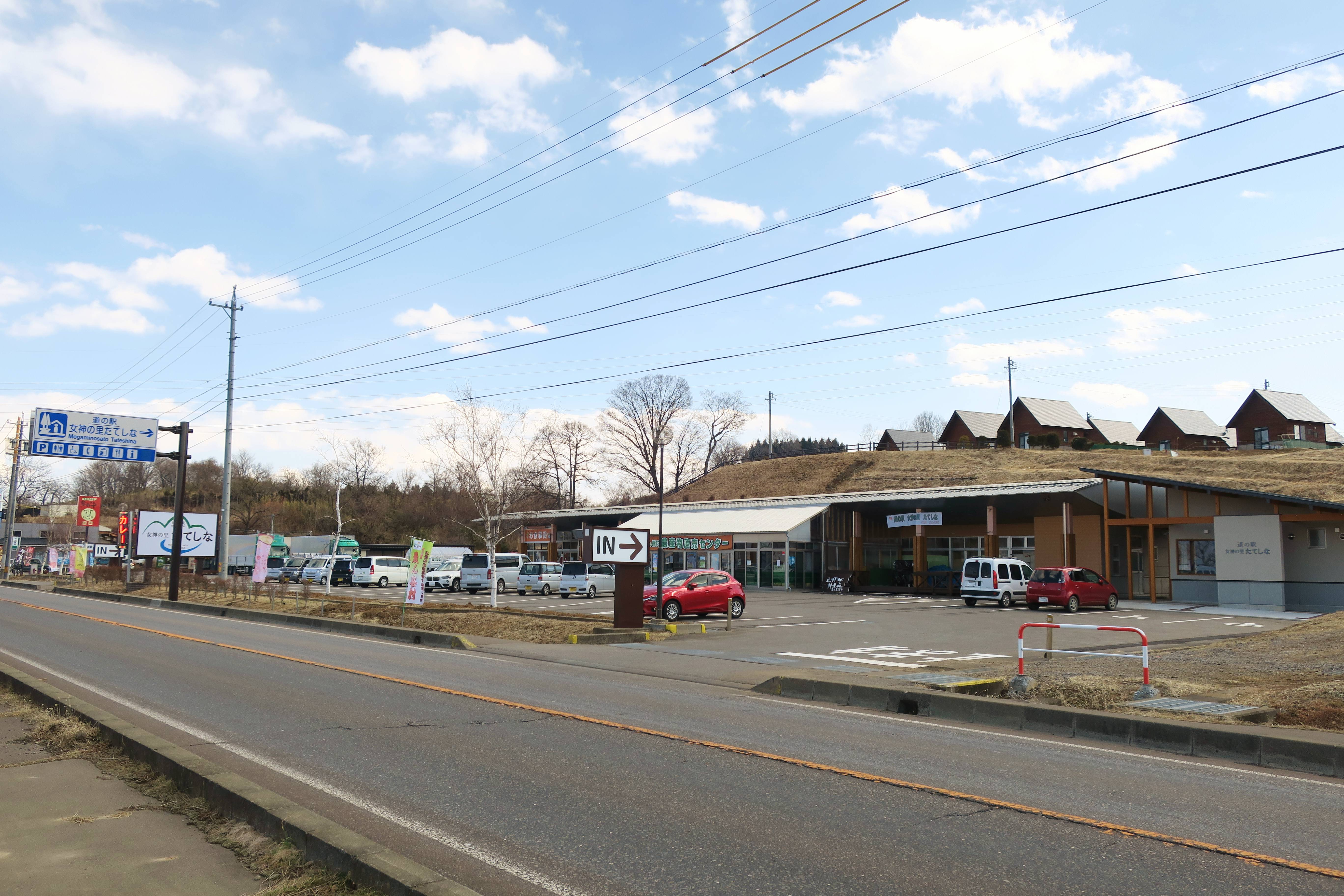 Michinoeki Megaminosato Tateshina.